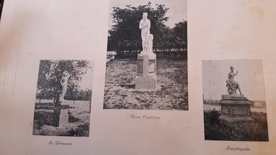 Fotografía del catálogo de estatuas adquiridas para el Parque 9 de Julio de San Miguel de Tucumán, extraída del Álbum del primer Gobierno de Miguel Campero. Año 1928.